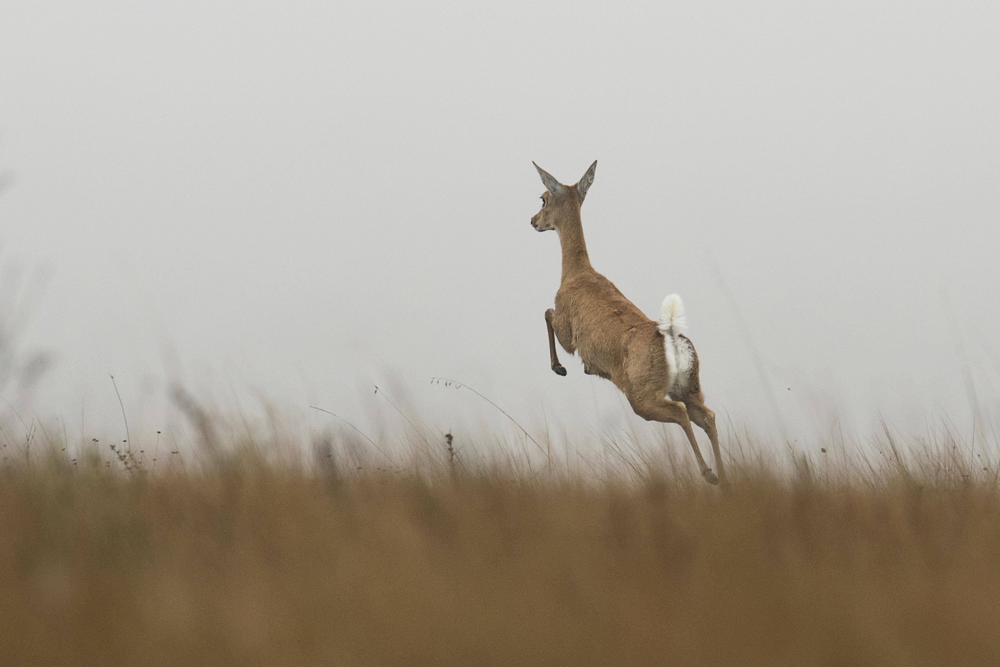 Pampas deer doe running in Serra da Canastra National Park, Brazil.